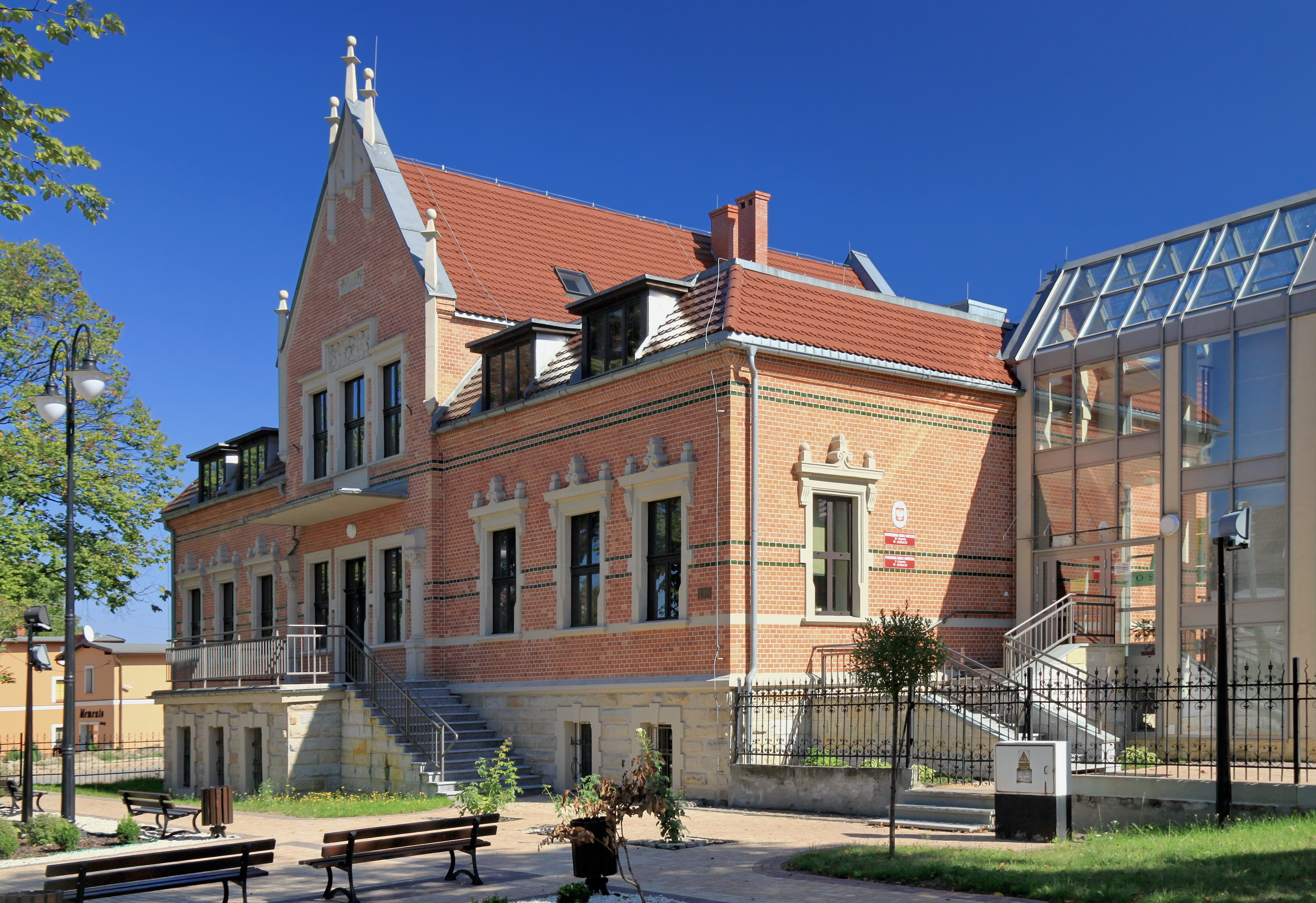 Żory, house, now Music School, build in 1903